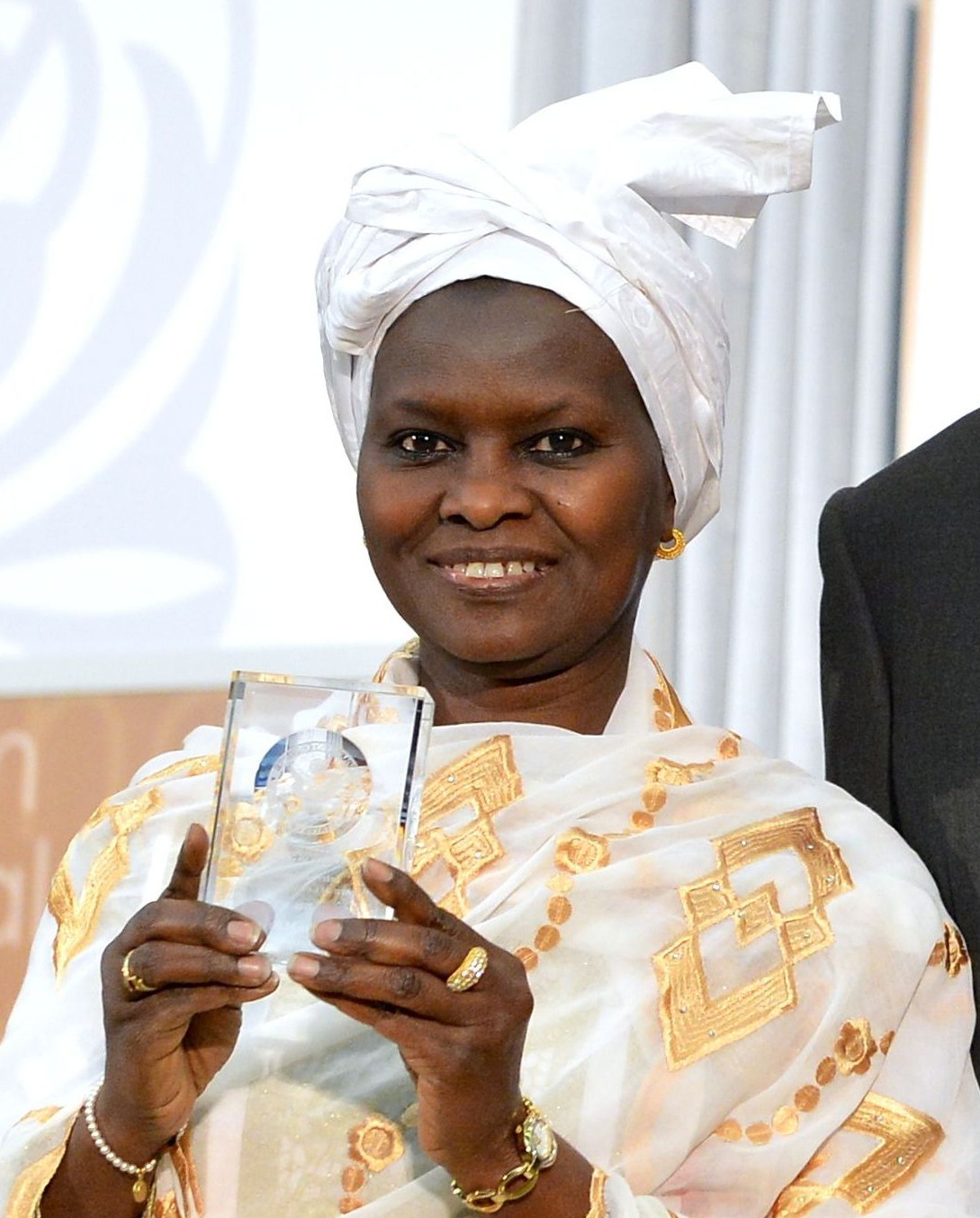 Fatimata M’baye cropped from a pic with John Kerry at the International Women of Courage Awards 2016